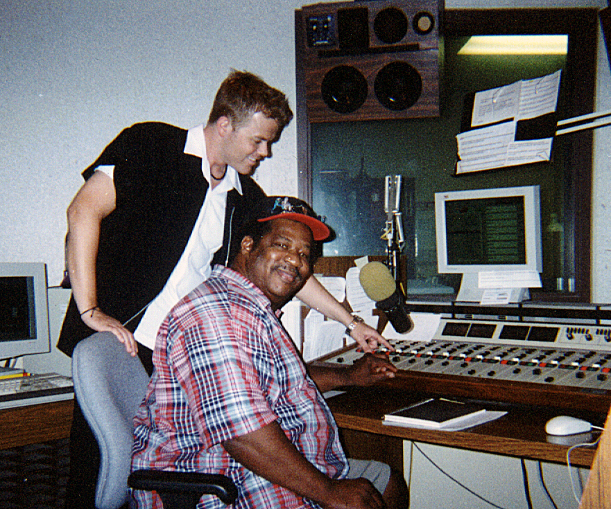 Drew Verbis and Jerry Lawson at KJZZ Radio